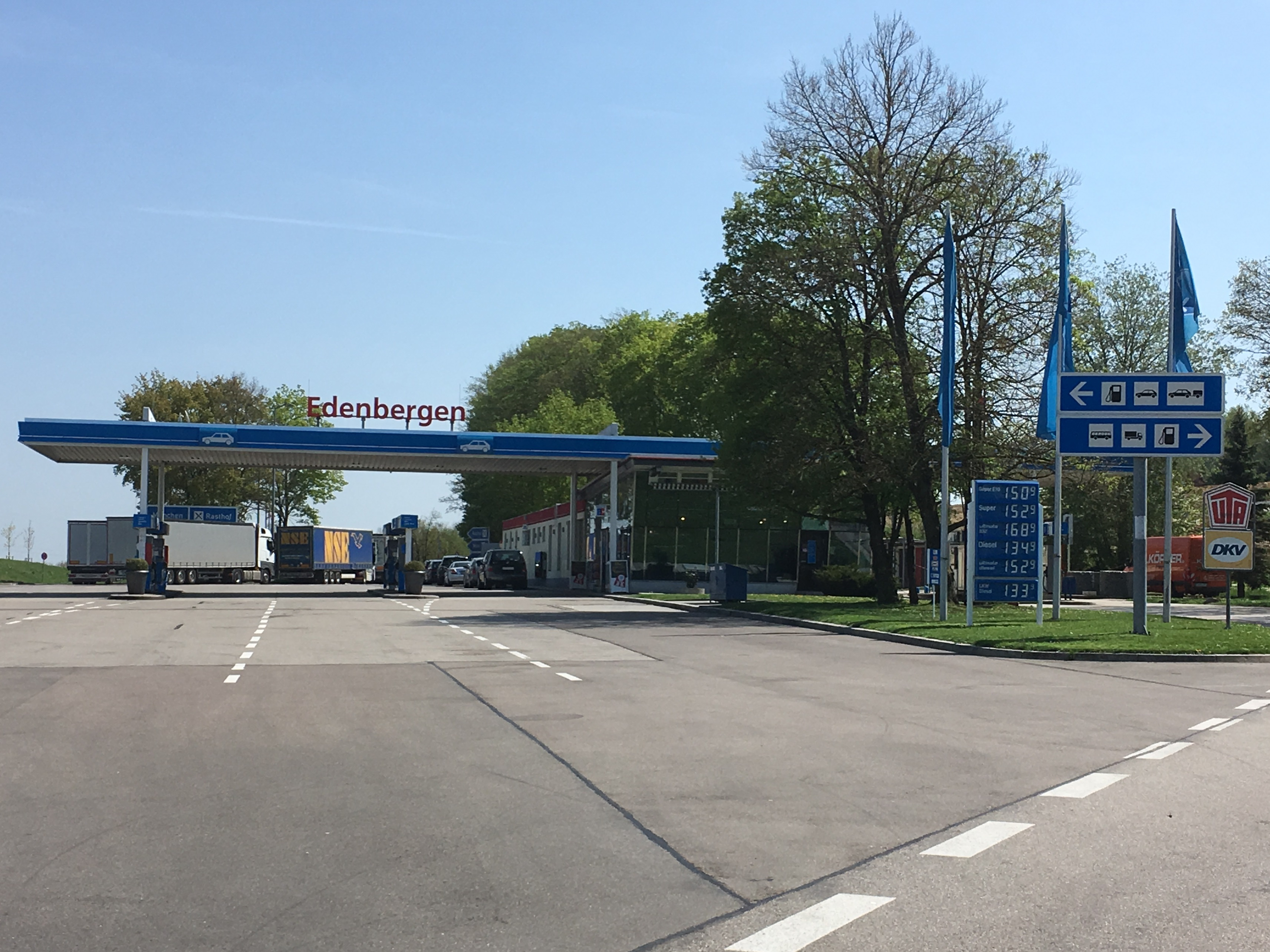 Edenbergen service plaza